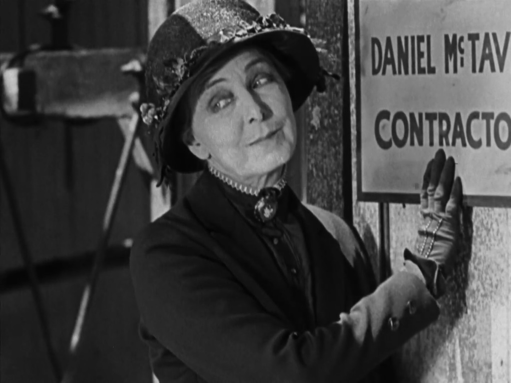 Screenshot from the silent film The Ten Commandments (1923).